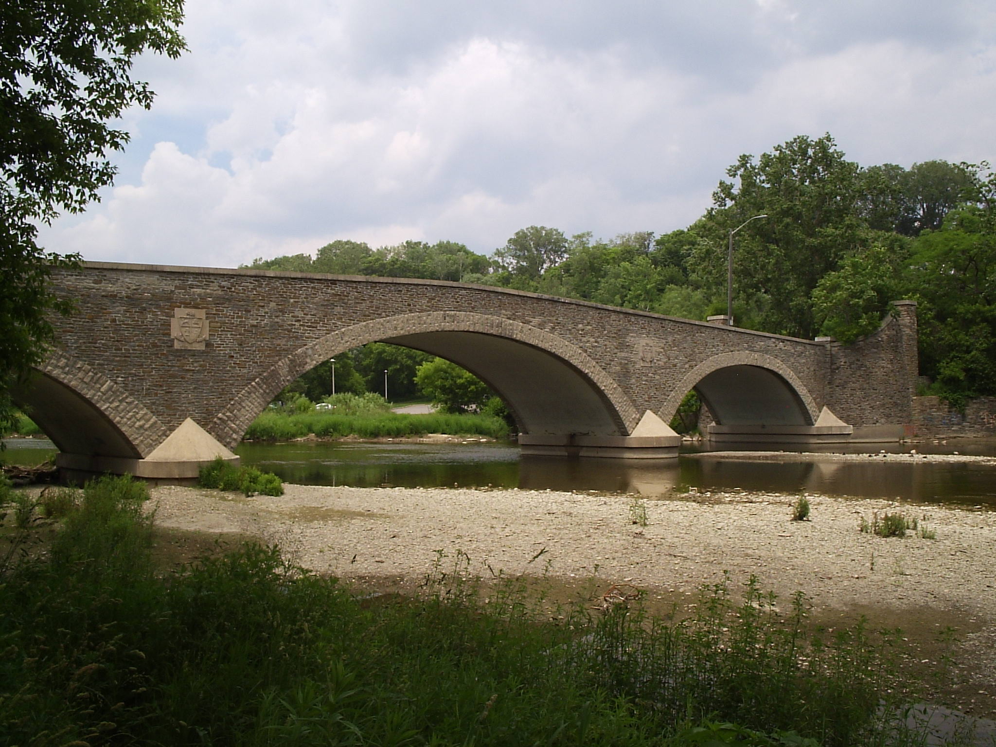 Etienne Brule Park/Old Mill Bridge (1916) - Toronto